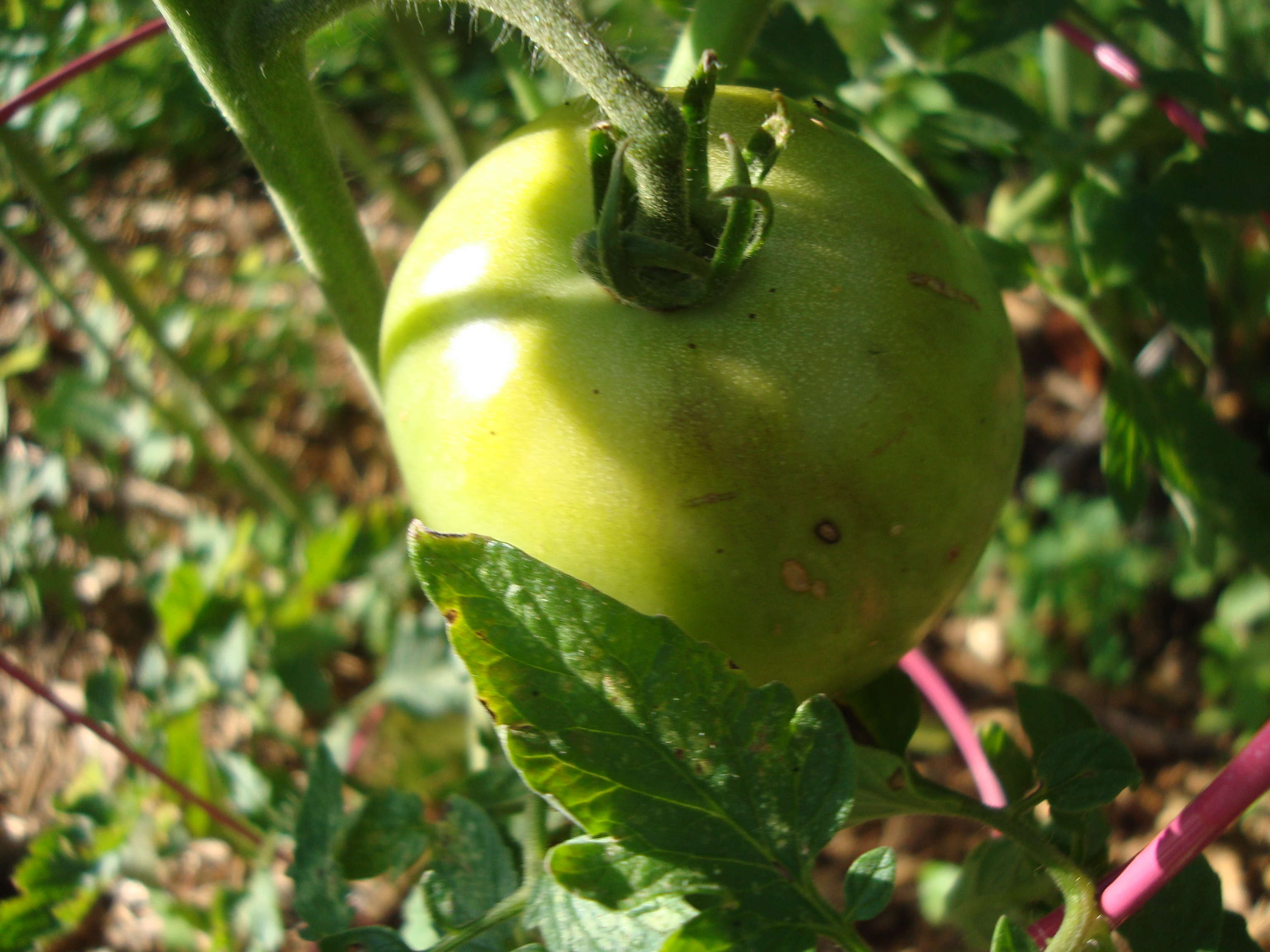 Lycopersicon lycopersicum 'Lemon Boy'